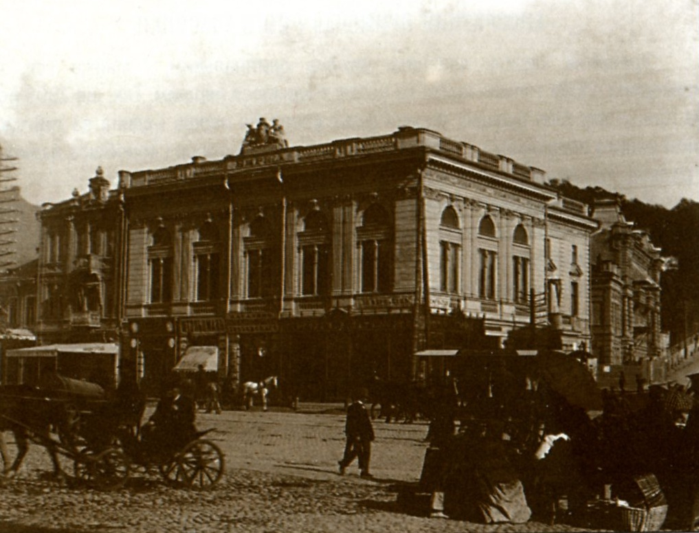 Ukraine-Kyiv-Exchange.